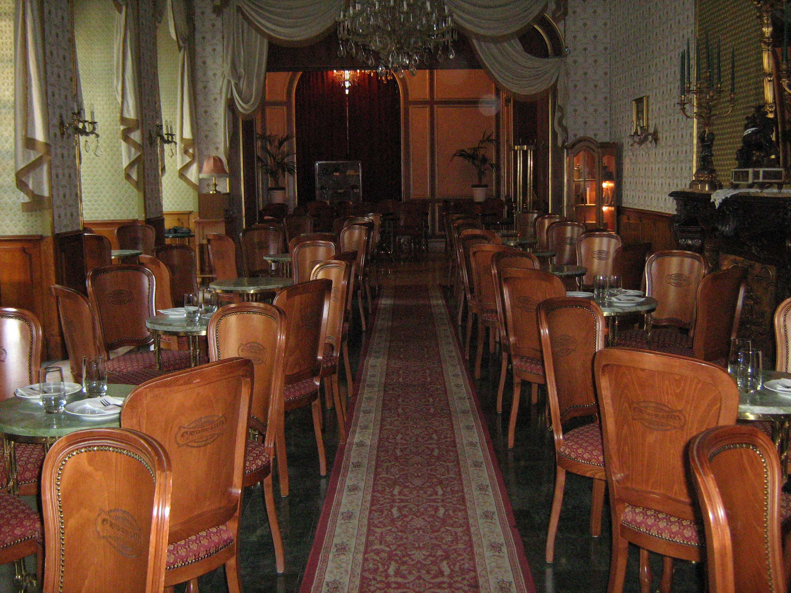 Inside Cafe Gerbeaud